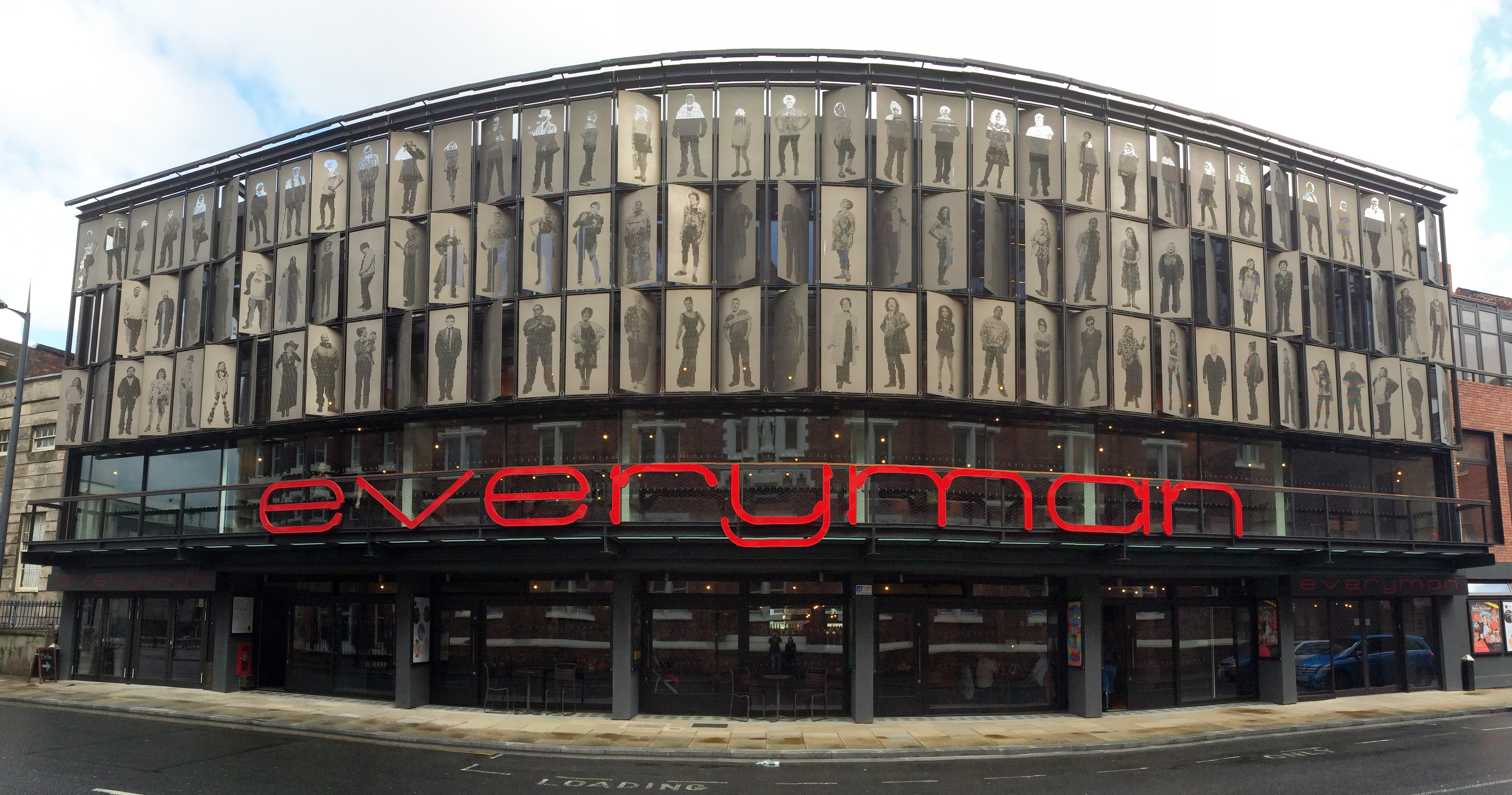 The Everyman Theatre, Hope Street, Liverpool, UK